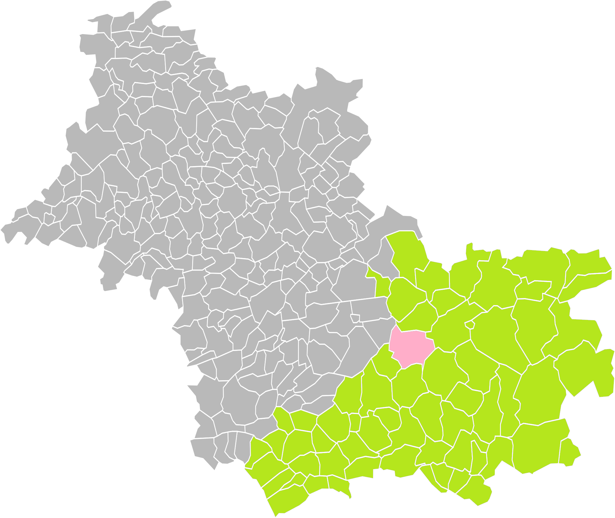 Location of the commune of Vernou-en-Sologne in the arrondissement of Romorantin-Lanthenay (Loir-et-Cher)